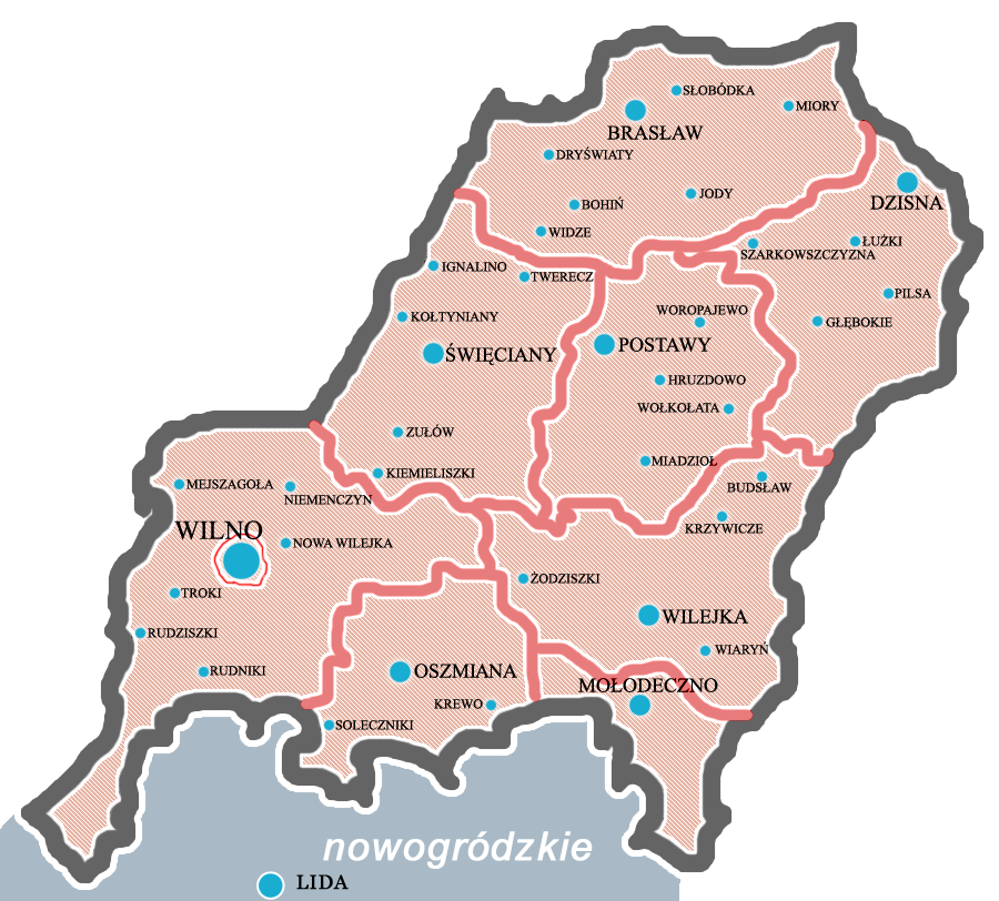 Map of Wilno Voivodeship, 1937.